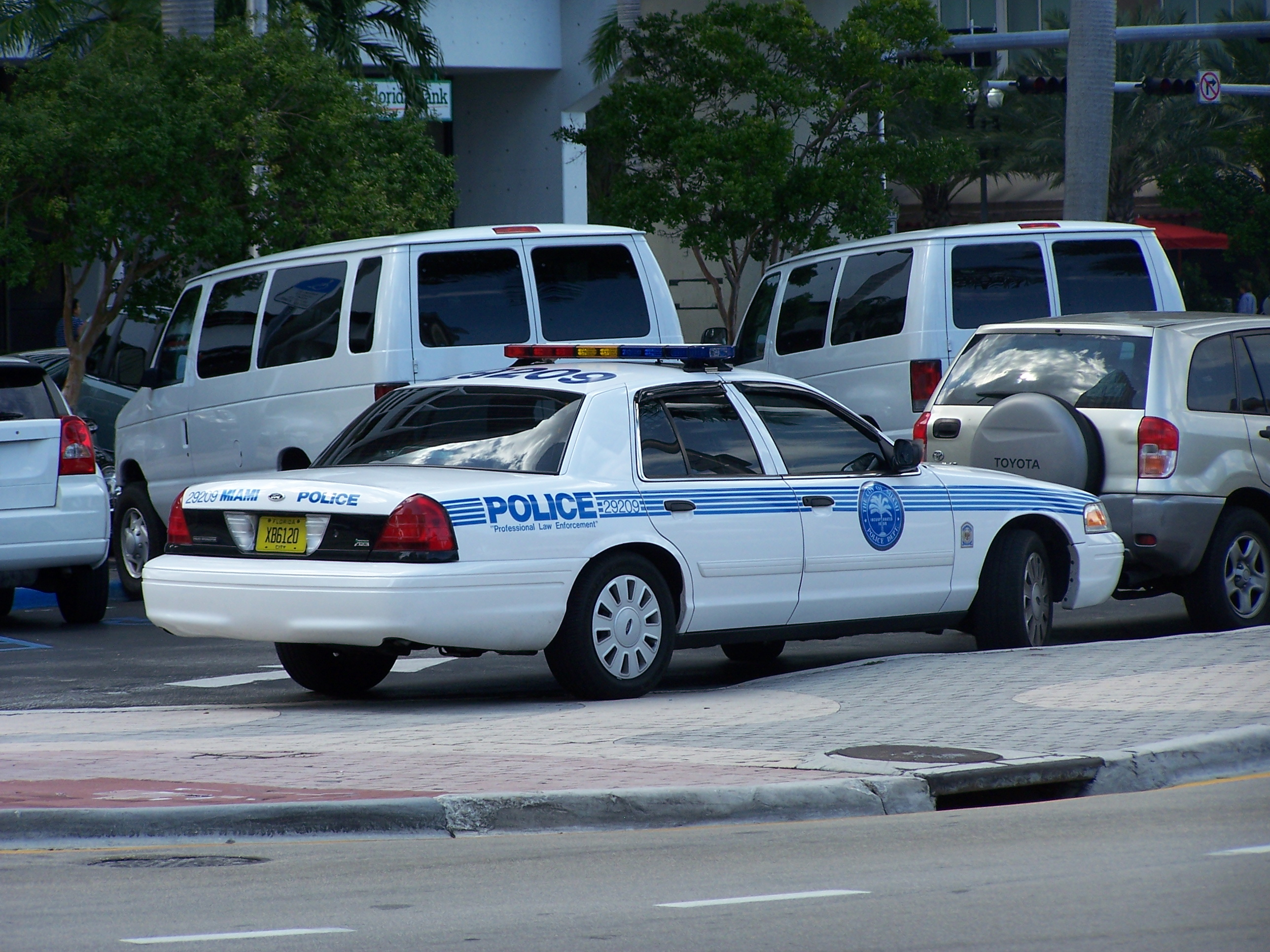 Miami Police Department - "Professional Law Enforcement"